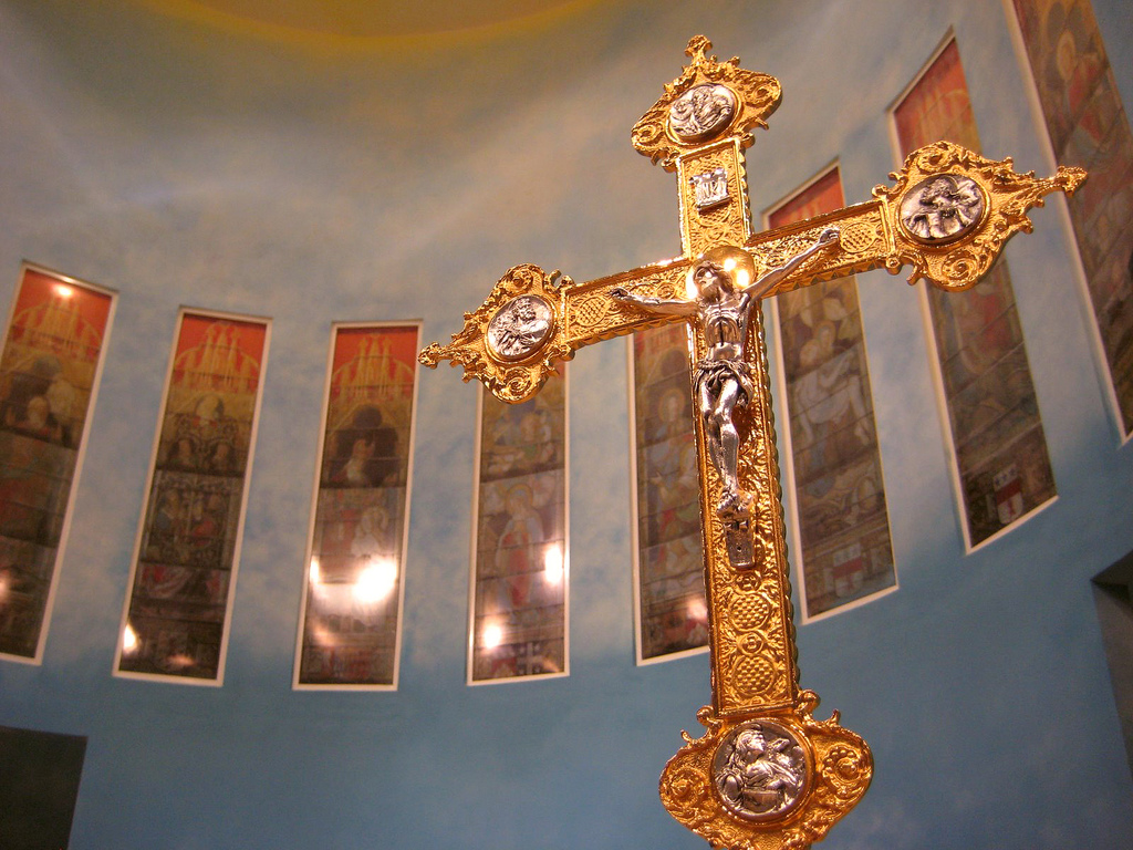 Doha, Qatar — The country's first church, Our Lady of the Rosary, opens to the public on Saturday, March 15. When completed, the Church complex, comprised of buildings for Catholic, Anglican, Coptic, Greek Orthodox and inter-denominational buildings, will be one of the largest Christian centres in the Gulf region. Read more on Al Jazeera